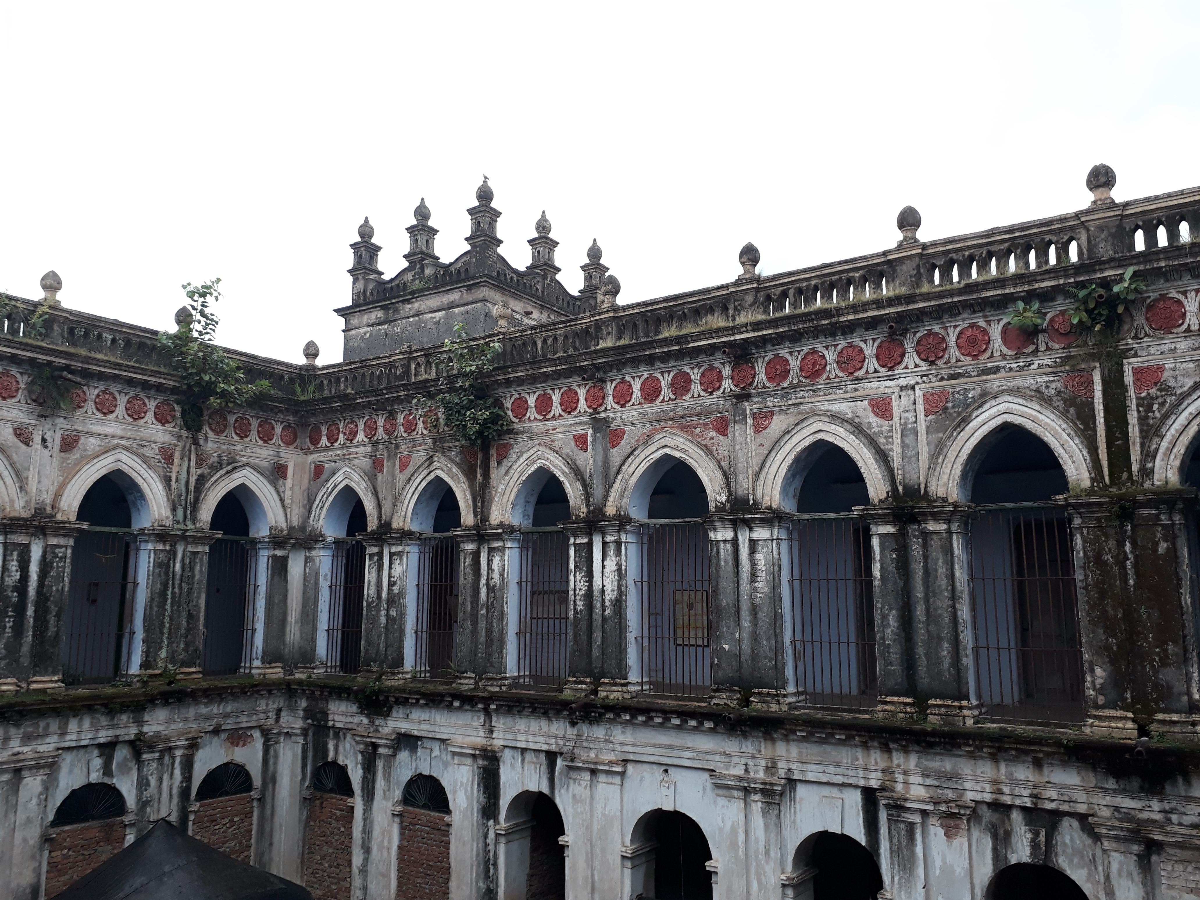 Hetampur Royal Palace at Hetampur village, Birbhum, West Bengal